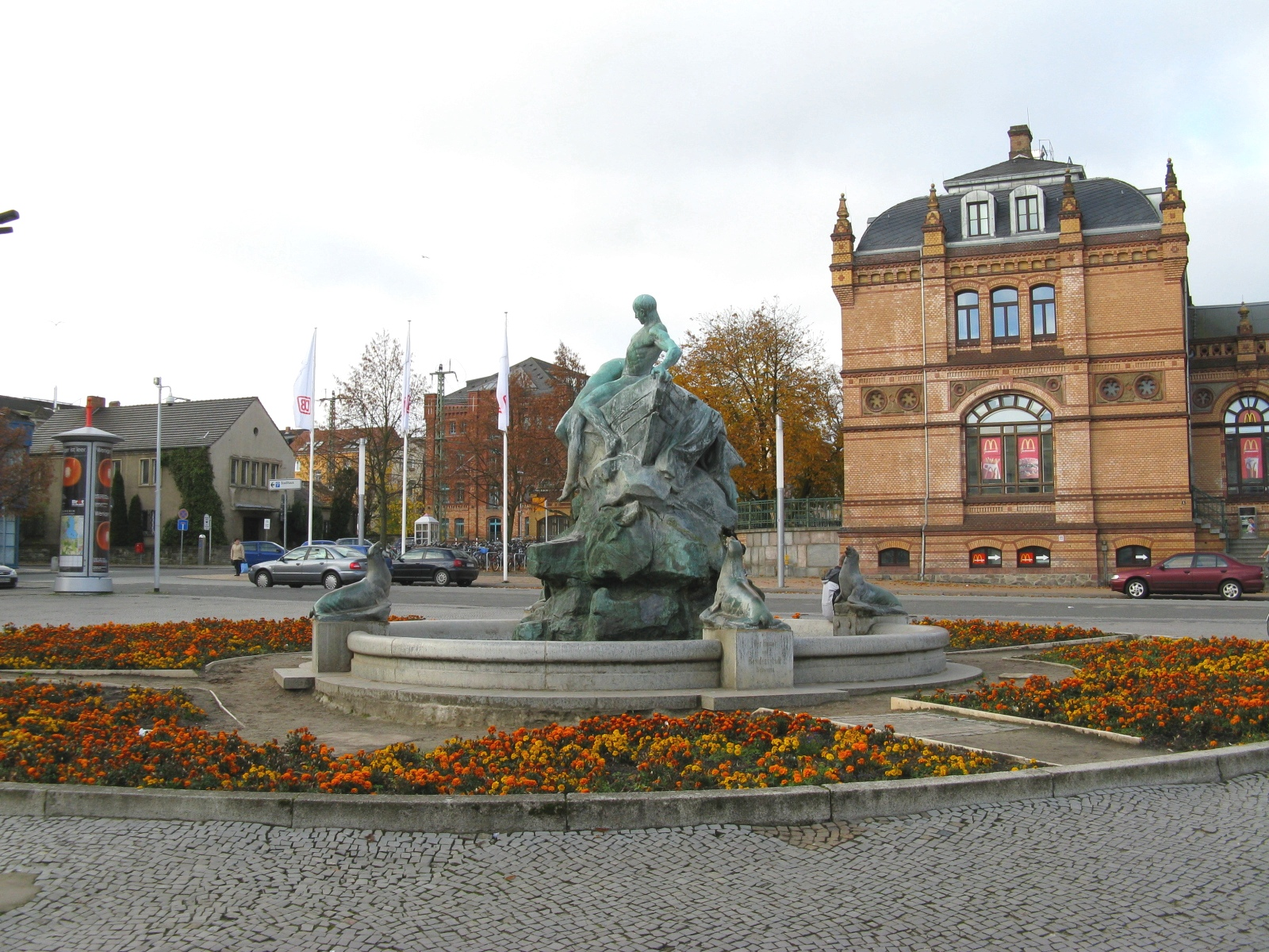 Fontain in front of Schwerins (Germany) central station (location since 1927), estimated 1910 at Schwerin's marketplace, artist of sculptures: Hugo Berwald